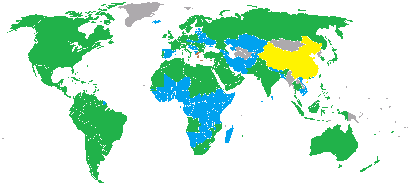 Cartoon Network available map (Where the channel is available) pink = planned Cartoon Network in the country's language (in min. 1 official language) green = Cartoon Network in the country's language blue = Cartoon Network not in the country's language brown = Cartoon Network not in the country's language, but there are subtitles in the country's language (in min. 1 official language) yellow = only on Internet on Video on Demand gray = no data / not available